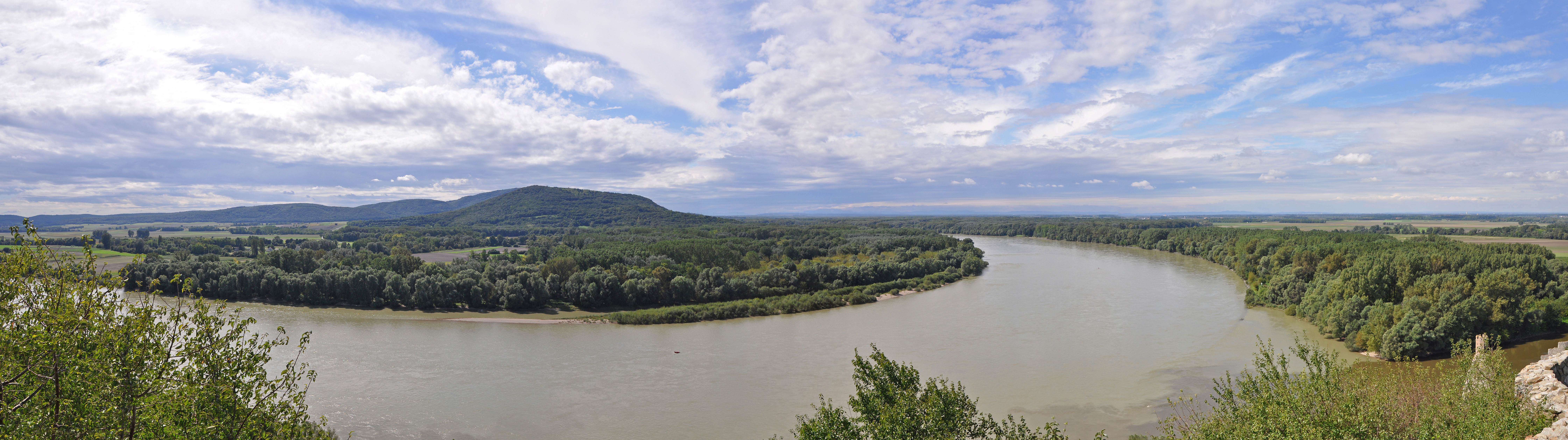 The Danube bend between Hainburg an der Donau (Austria) and Devín (Slovakia), seen from Devín. Made with Adobe Photomerge Panorama.